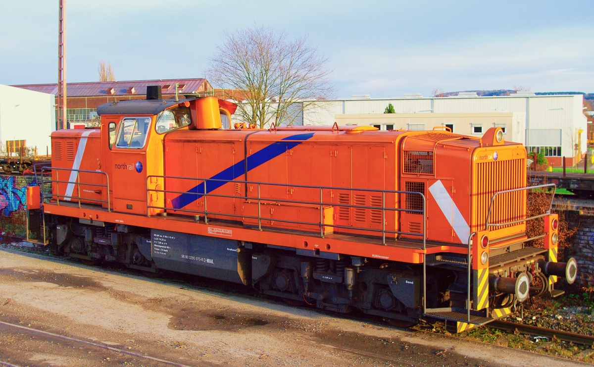 MaK built locomotive (no. 1000492/1972), special version of type G 1600 BB with only 1100 hp for Bavarian lignite industry. Today in service of locomotive-rental company Northrail. Was seen near Schwerte station.